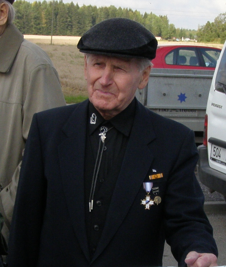 Kalju Jakobsoo at Estonian WWII veterans meeting in Porkuni, 2008.